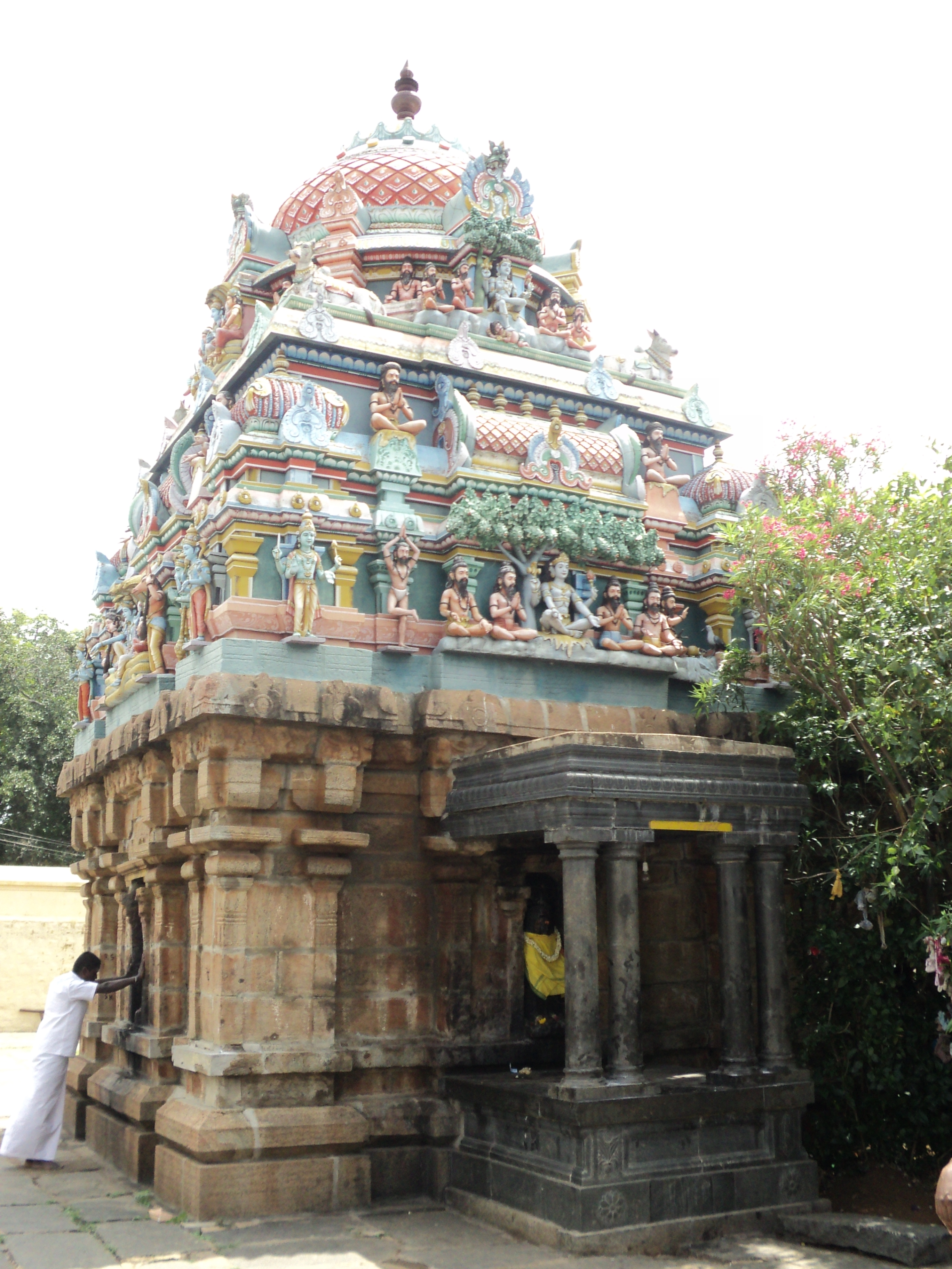 A Kovil inside Arapaleeswarar temple